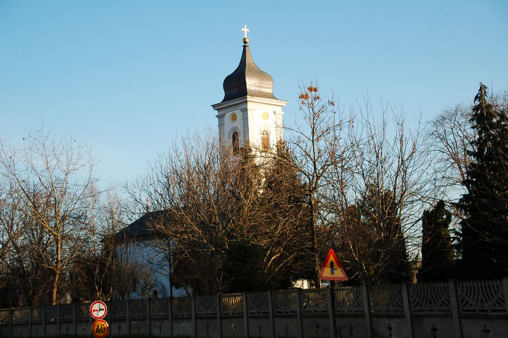 Church in Varvarin